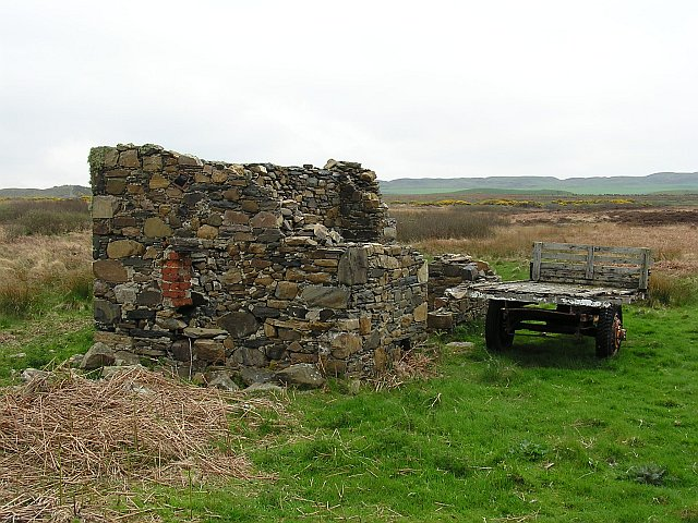 Abandoned Farm House at Loch gorm The image was made during a birding trip in spring. The little track where the farm house is located is now blocked due to a burn crossing the track.